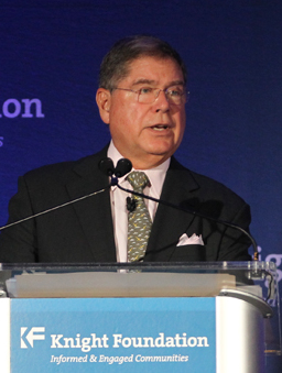 Media Learning Seminar 2013 attendees are addressed by Knight Foundation President Alberto Ibarguen at the Intercontinental Hotel in Downtown Miami.